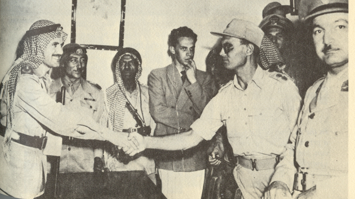 Moshe Dayan and Abdullah el Tell reach cease fire agreement, Jerusalem. 30 November 1948.